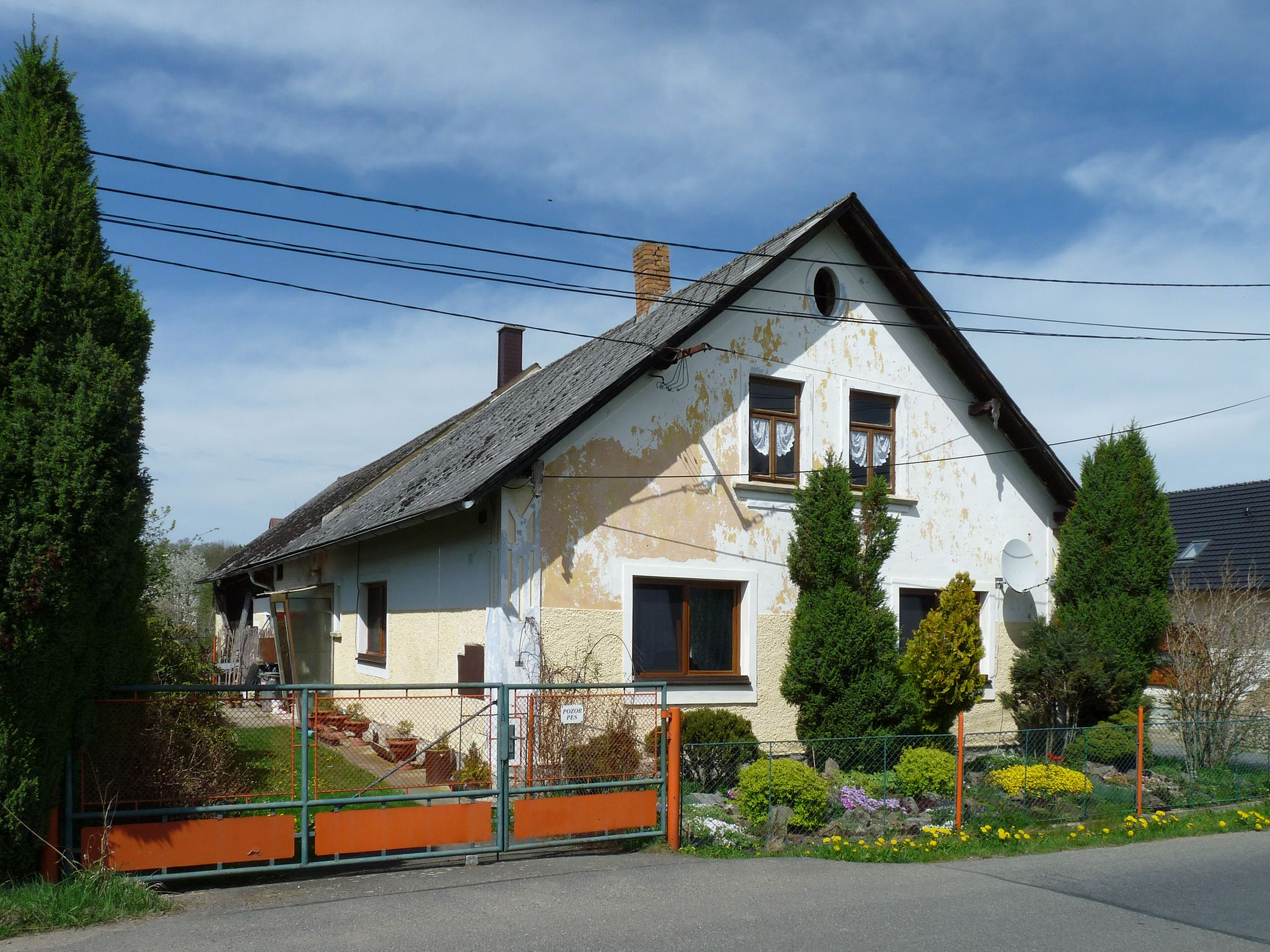 House No 7 in the village of Opálka, part of the town of Strážov, Klatovy District, Czech Republic